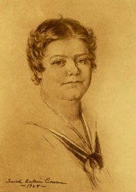 Maria Thompson Daviess (1872-1924), by Sarah Eakin Cowan (